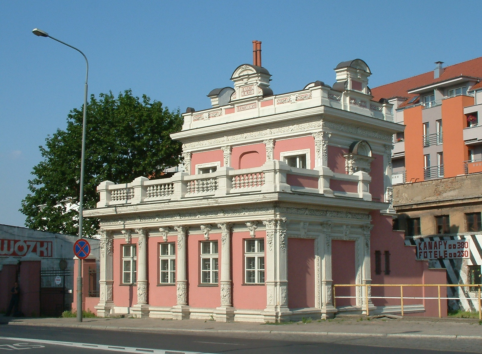 Counting-house of Antoni Krzyżanowski in Poznań